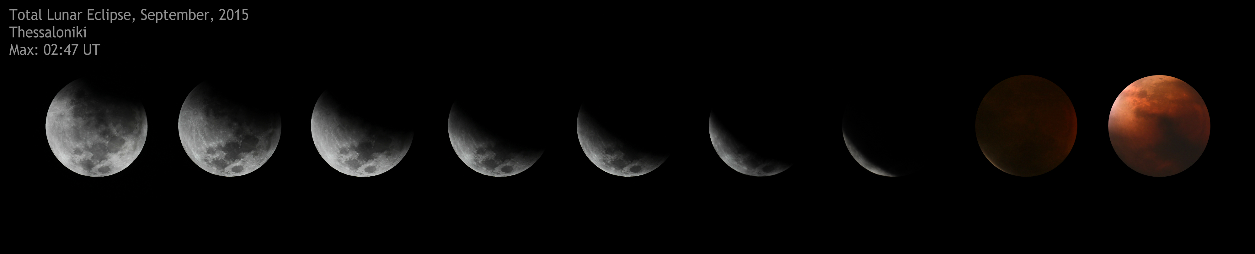 Moon passes directly behind the Earth.